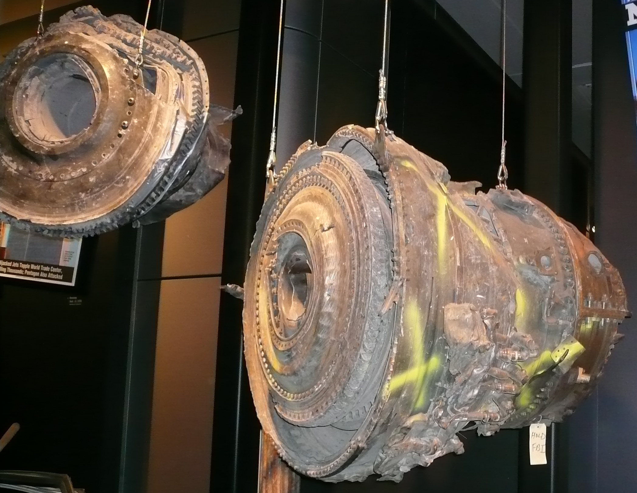 Airplane engine parts from American Airlines Flight 11 and United Airlines Flight 175, which hit the World Trade Center's North and South Tower, respectively. Loan, FBI Tour. Newseum, Washington D.C., USA.